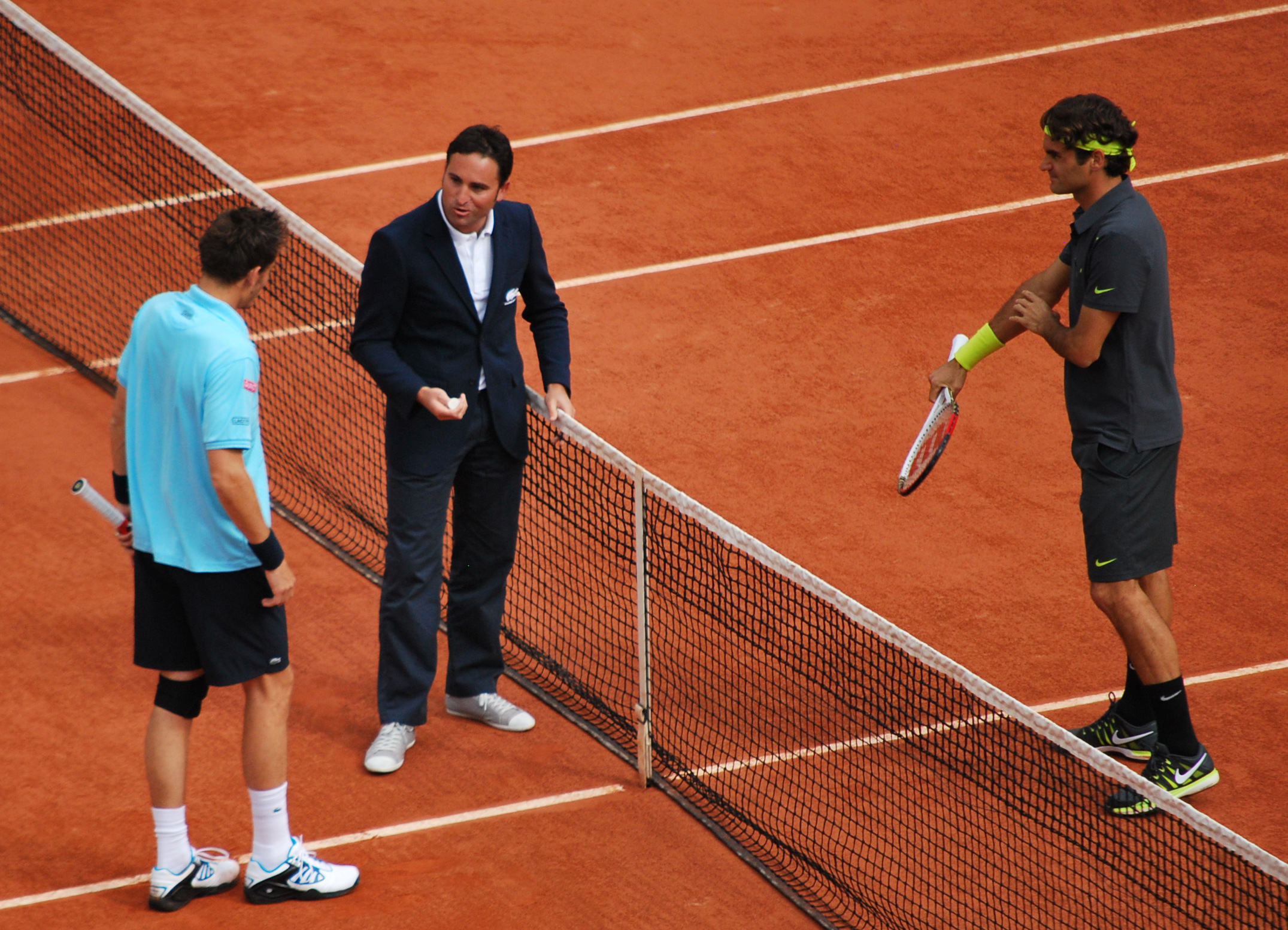 At the start of their 3rd round match. Federer won 6-3, 4-6, 6-2, 7-5. Day 3 of Roland Garros 2012.